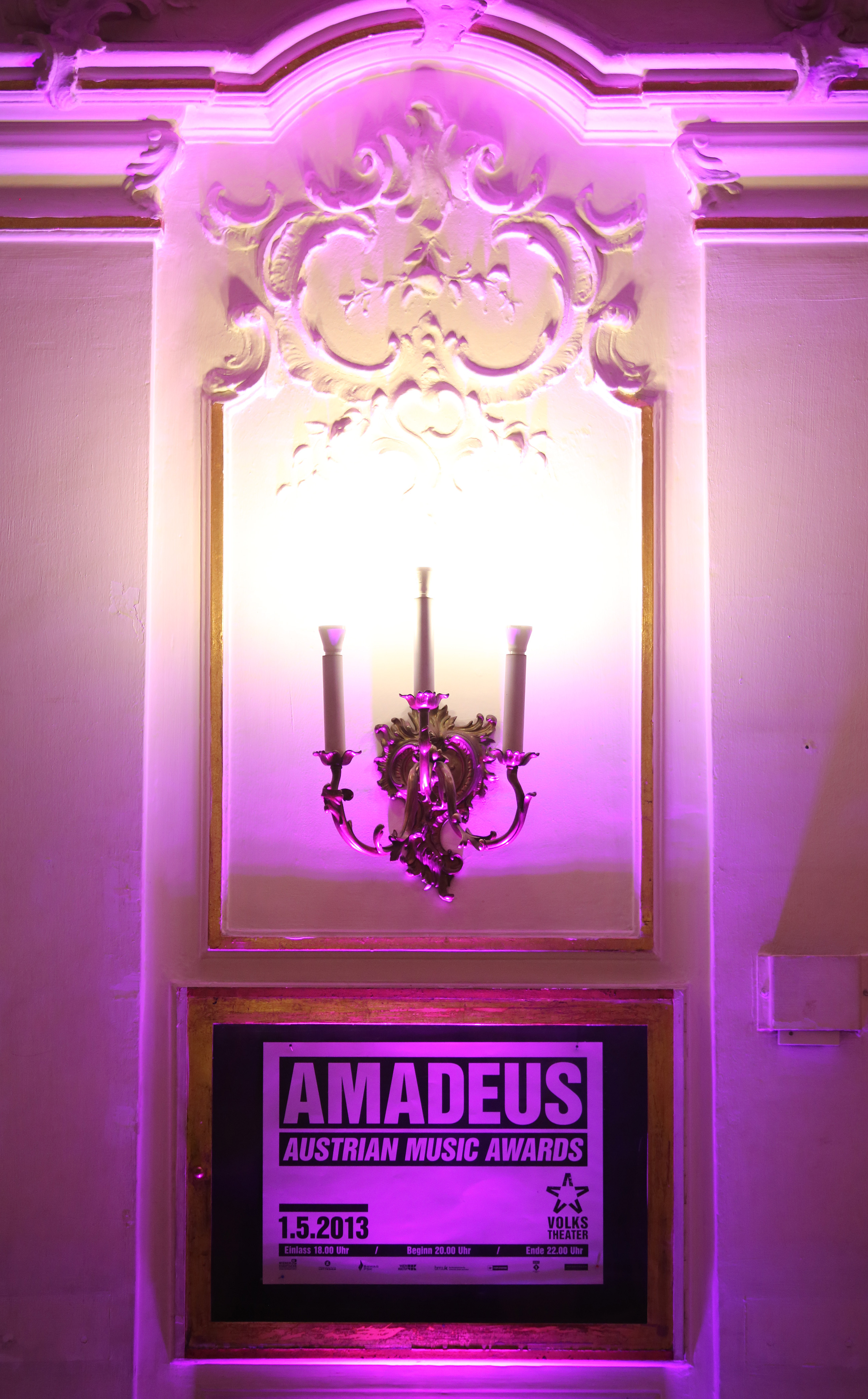 Amadeus Austrian Music Award at Volkstheater in Vienna